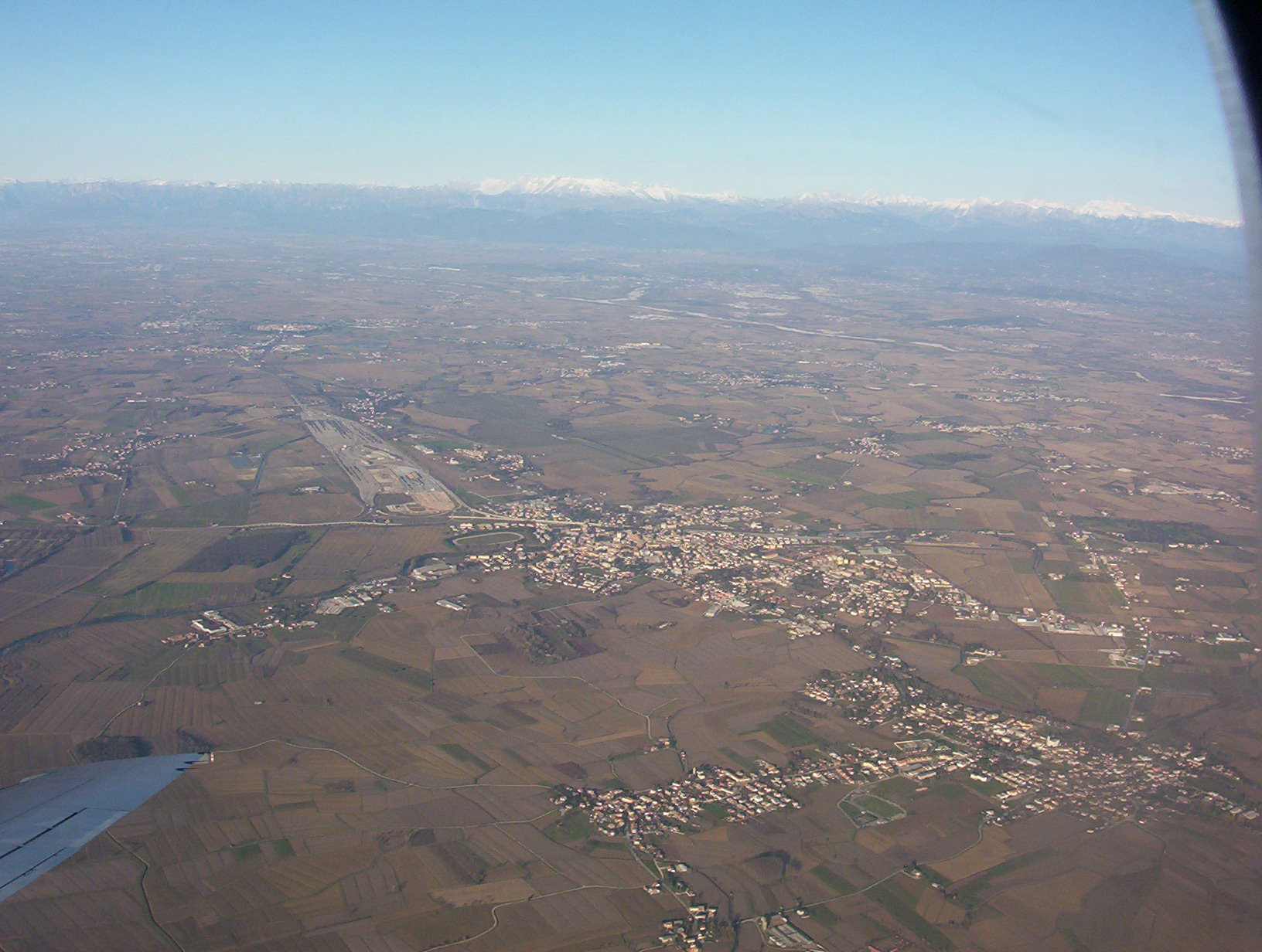 A view of Cervignano del Friuli and Terzo di Aquileia (two villages near Udine, Italy) in a photo by Trevirgola. December 2004.